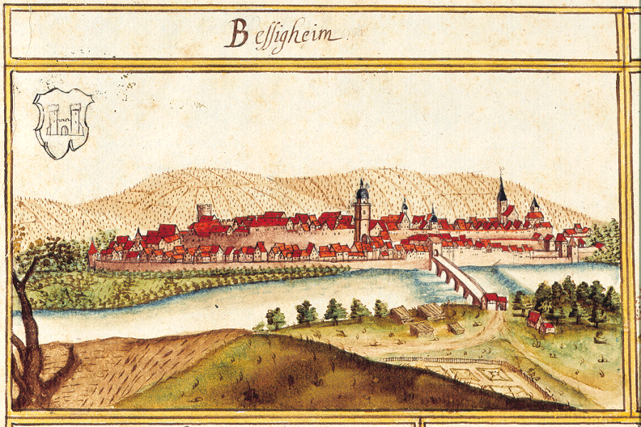 View of Besigheim from the forest register books created by Andreas Kieser